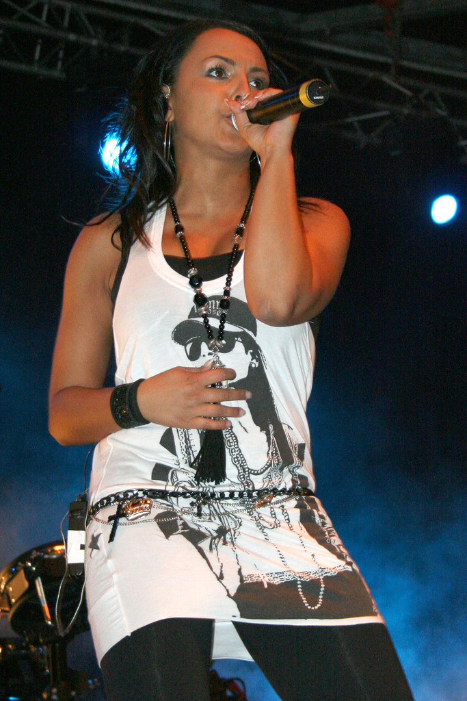 Linda Mertens (Milk Inc. Singer) during a full live show of Milk Inc. at Gentse Feesten 2007, Gent, Belgium.